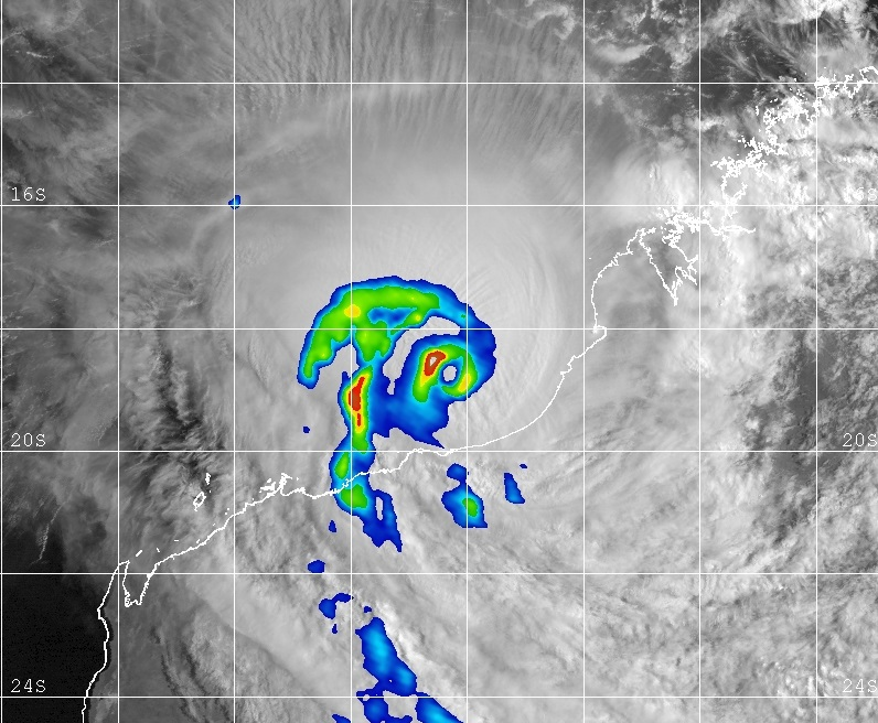 Microwave-enhanced satellite image of Cyclone Lua around 0000 UTC on 17 March 2012, while near peak intensity and approaching the Pilbara region of Western Australia.